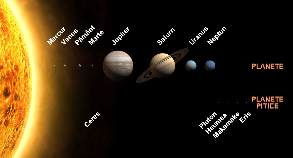 Planets and dwarf planets of the solar system with sizes shown to scale, but with distances extremely compressed. Orbital planes have been altered with similar artistic license to line up planets and dwarf planets in separate rows. Ordering is properly shown by mean distance from the Sun (Pluto can be closer than Neptune, but its average distance is farther).